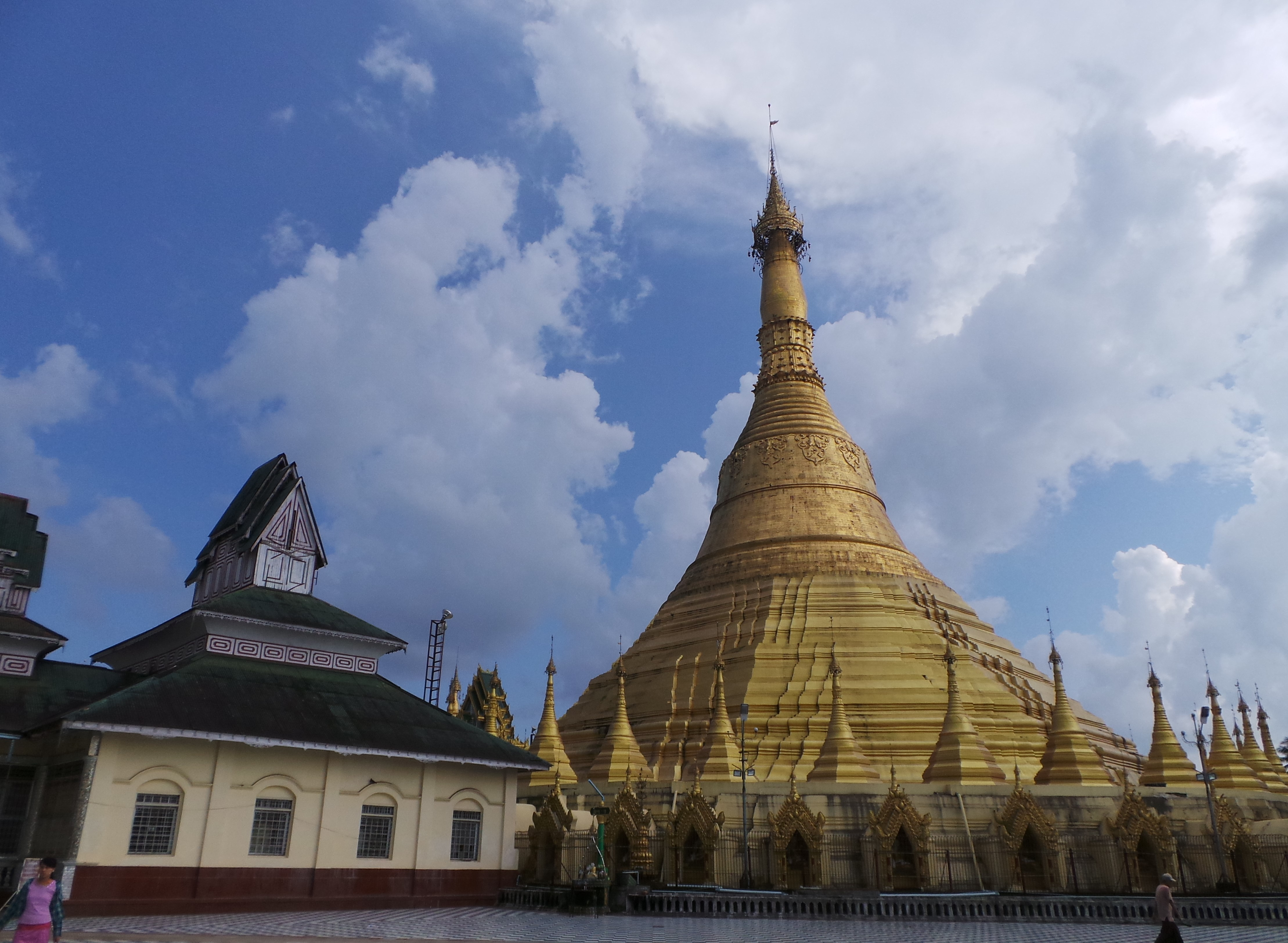 Shwe Sar Yan Pagoda, Thaton, Mon State မြန်မာဘာသာ: ရွှေစာရံစေတီတော်၊ သထုံမြို့၊ မွန်ပြည်နယ်